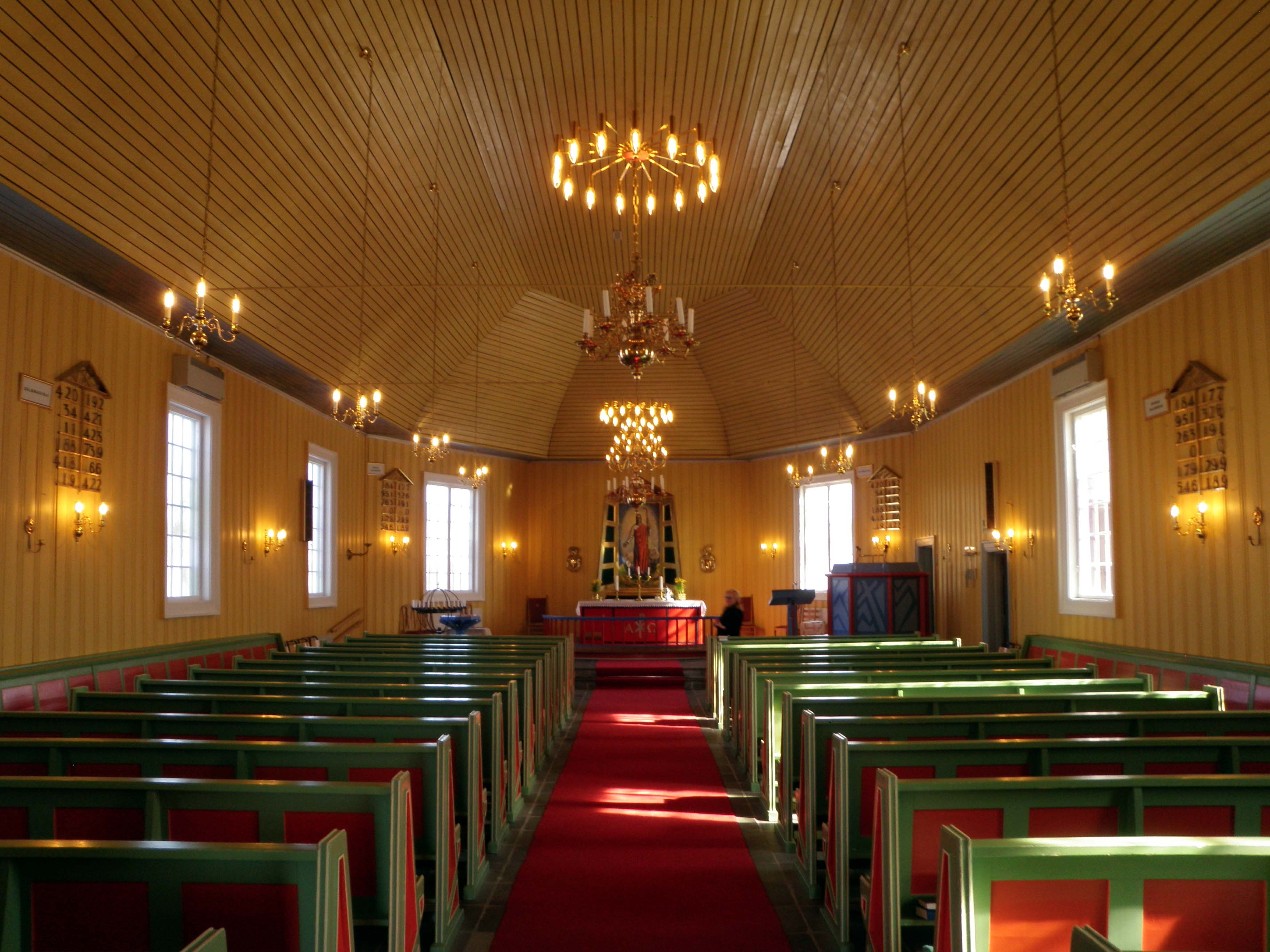 The interior of Kautokeino Church, in Kautokeino, Finnmark, Norway. View facing the altar.